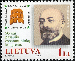 Stamps of Lithuania, 2005